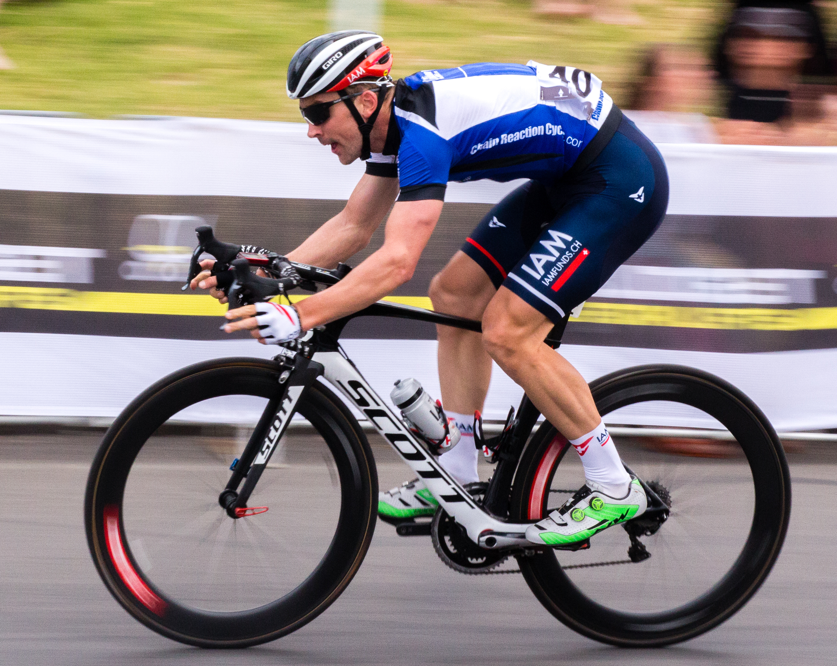 2016 Bay Crits